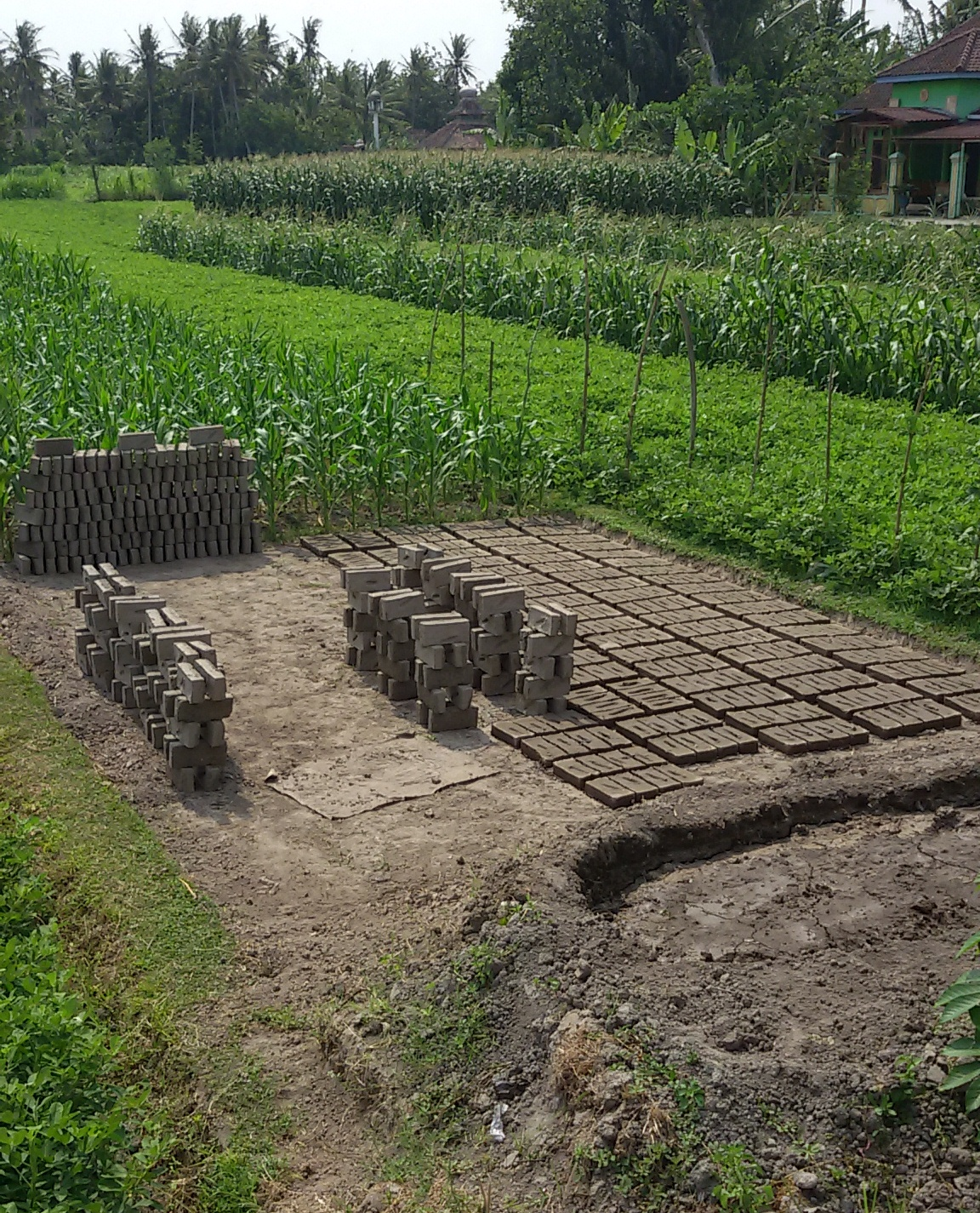 Raw bricks were sun dried before fired